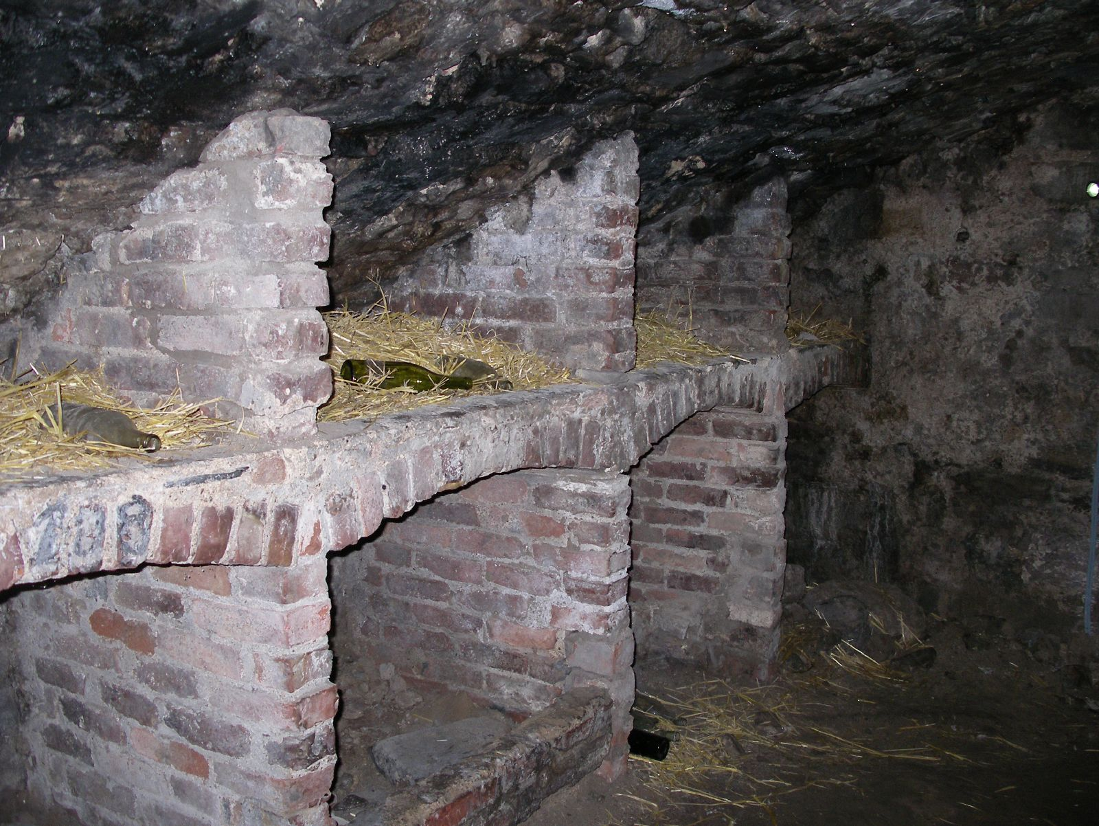 Ghost Hunter Tour 10